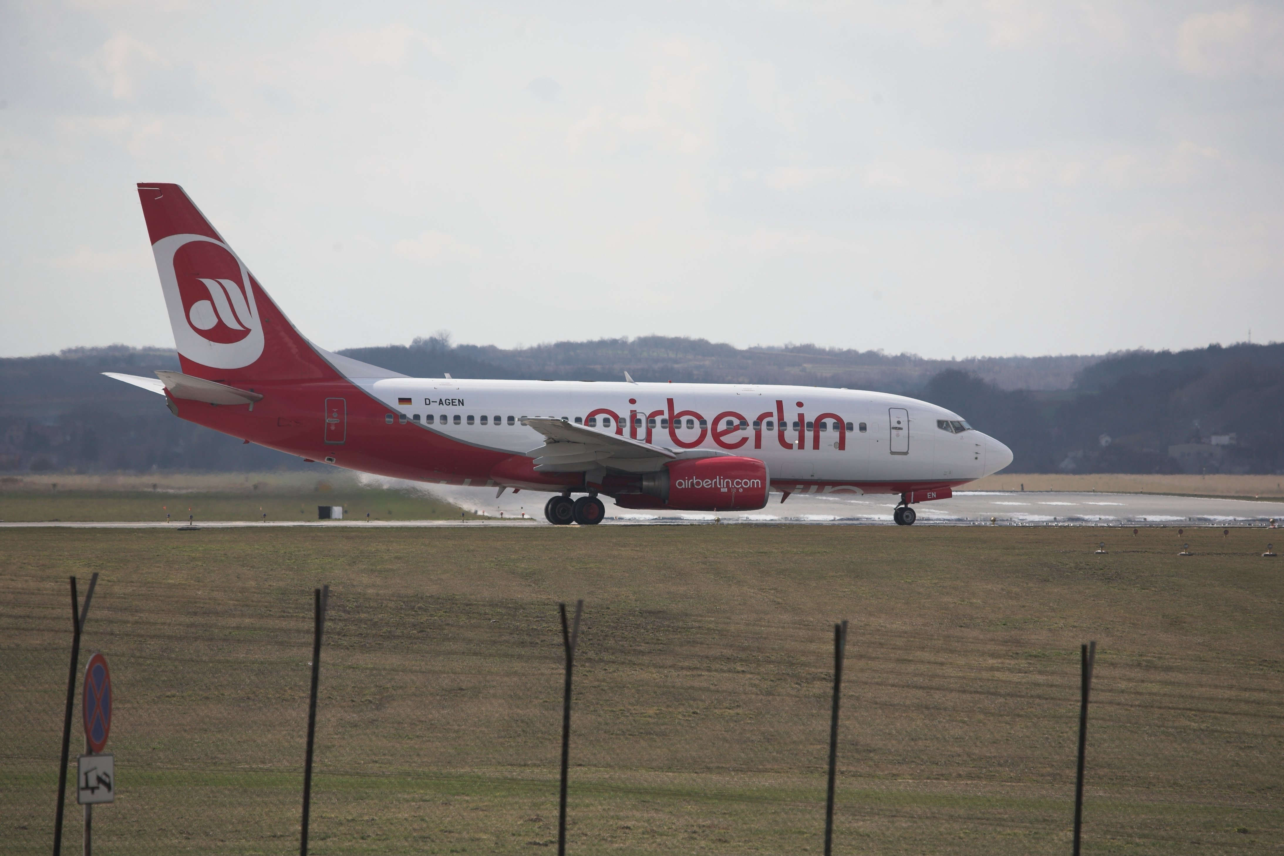 Air Berlin Boeing 737 in Kraków Airport